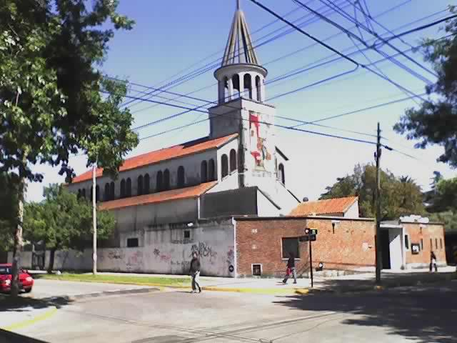 Church of Nuestra Señora del Carmen, one of many Merlo’s historic monuments, Buenos Aires Province, Argentina.